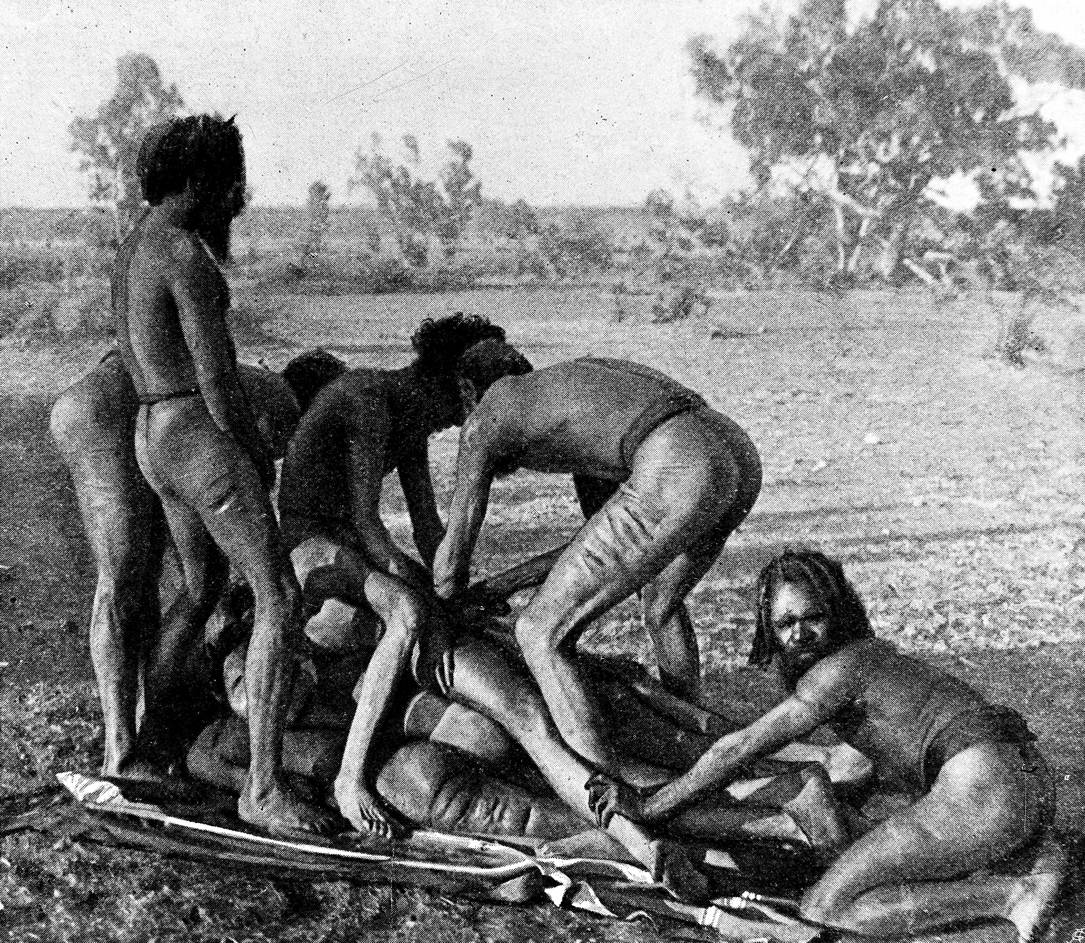 Operation of Subincision, Warrumanga Tribe, Central Australia Wellcome Images Keywords: non-european cultures; ancient medicine; body decoration; artificial deformation; indigenous peoples: warrumanga; Ethnography